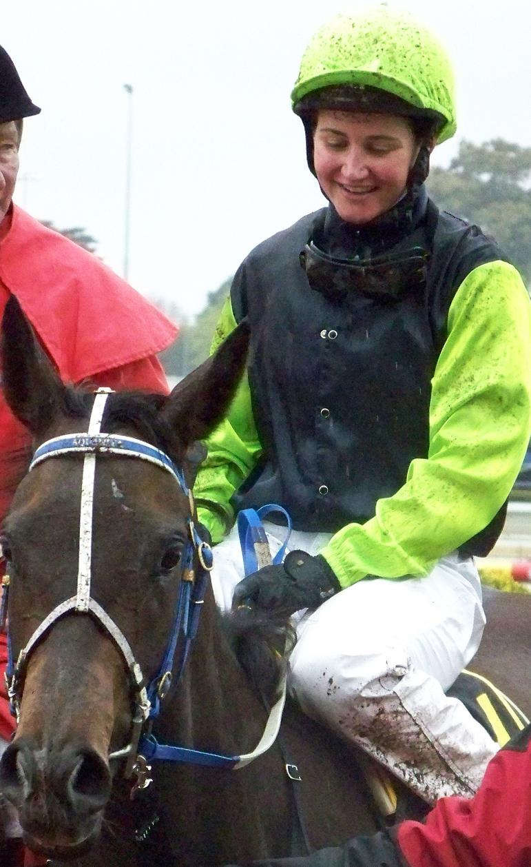 Michelle Payne on Yosei having just won the 2010 Thousand Guineas at Caulfield